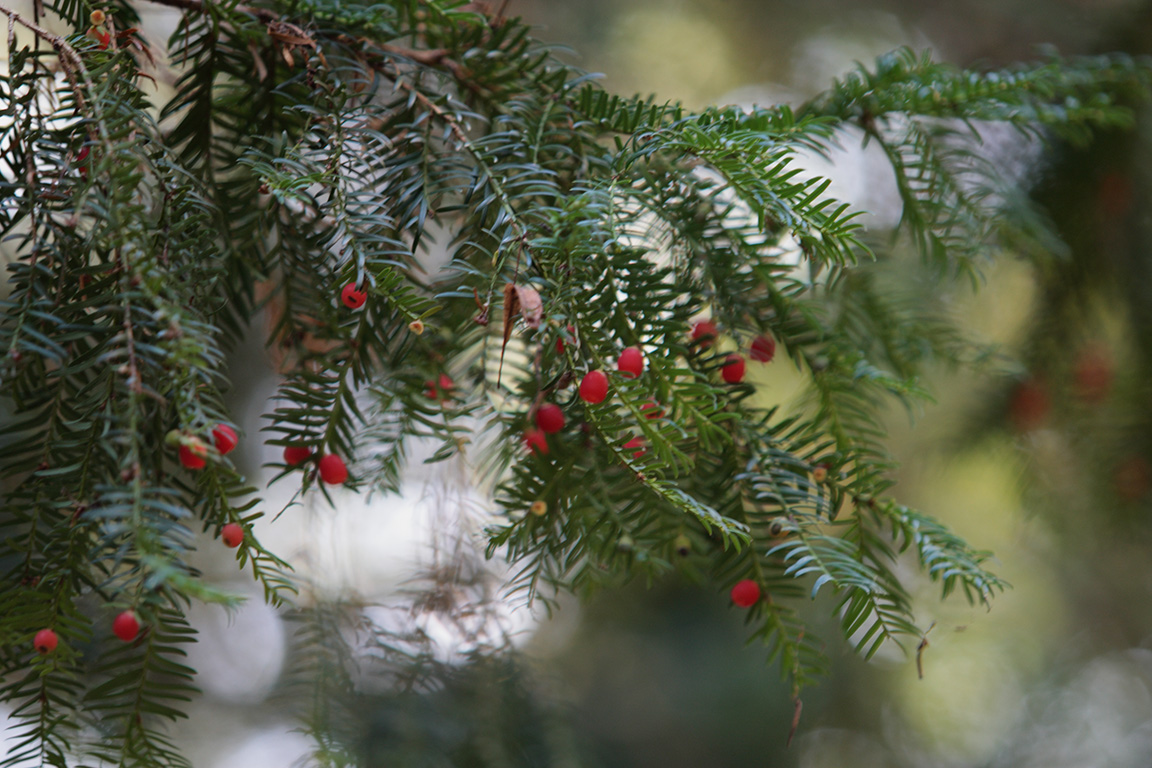 Taxus baccata var. dovastoniana (European Yew), Poland - Nature reserve "Cisy Staropolskie"